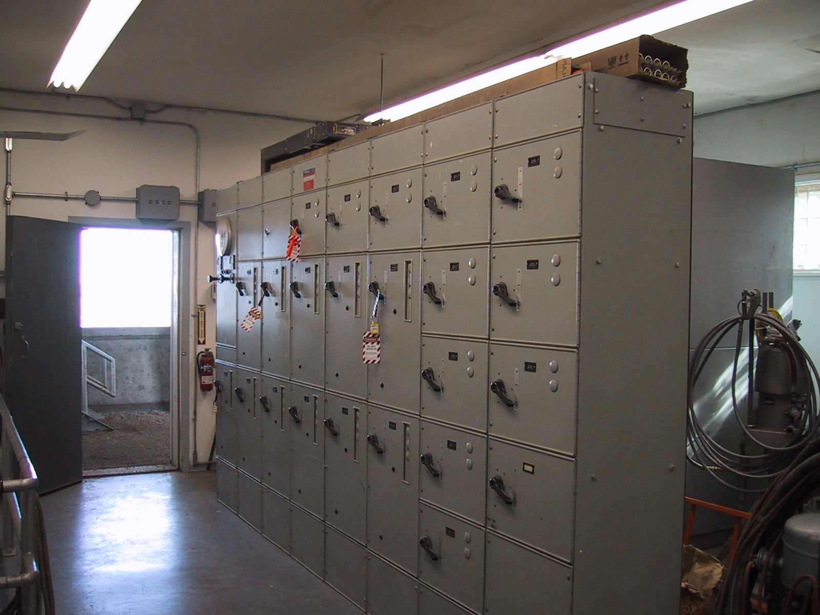 A small, early 1960s vintage, 480 volt 3 phase motor control center for the spillway gate hoists at an irrigation and hydroelectric project Gardiner Dam, Saskatchewan. Photo taken June 2001.